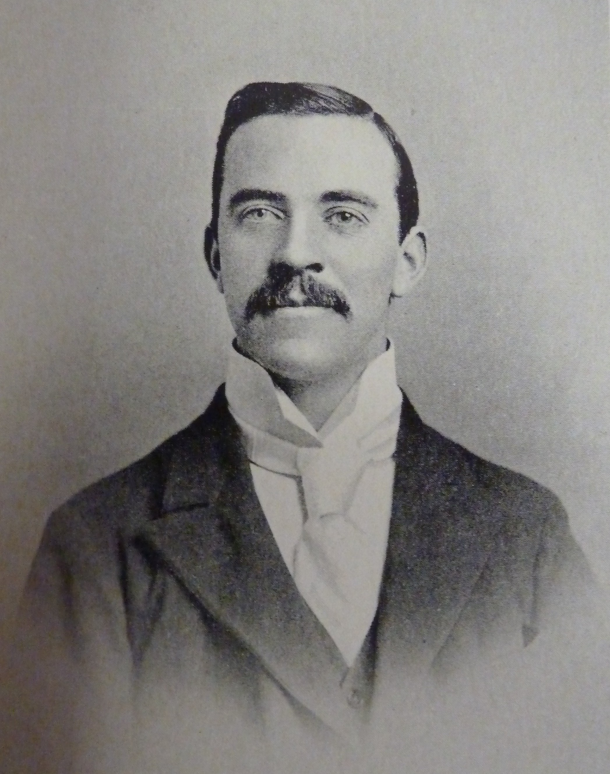 Portrait of George Bedborough from the Legitimation League's journal The Adult